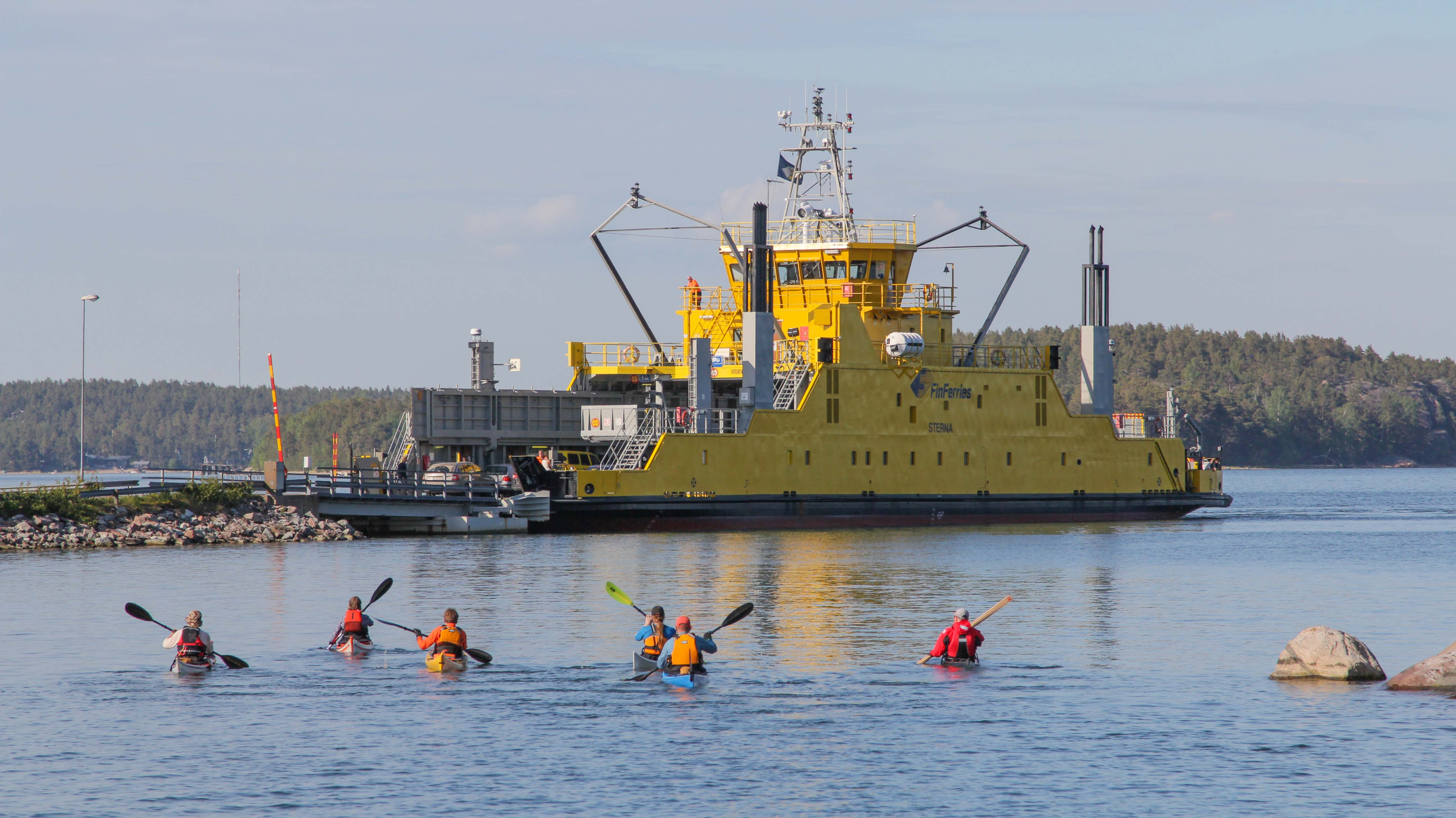 Nagu Kayaking Marathon